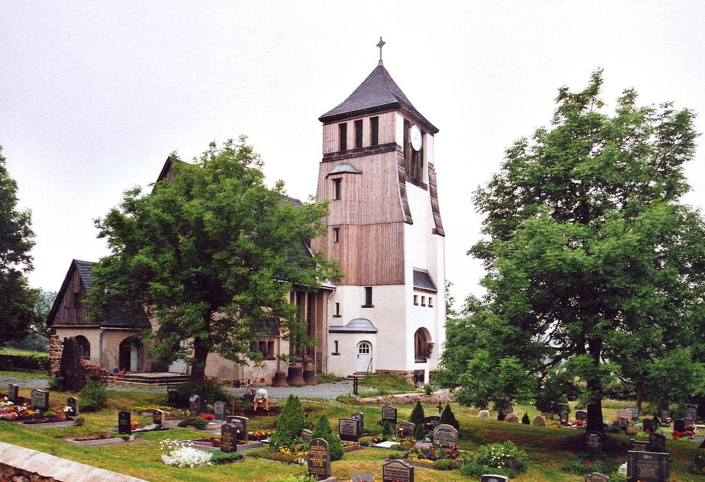 Zinnwald-Georgenfeld: The evangelic church (built 1908/09).